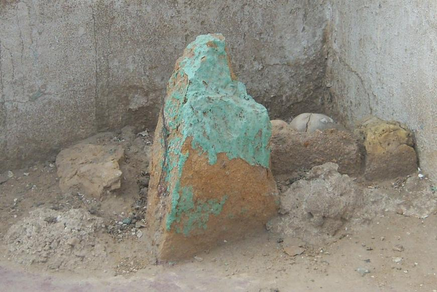 The actual stone that was dropped on Kadu Makrani by a laborer. It has been preserved next to his grave.